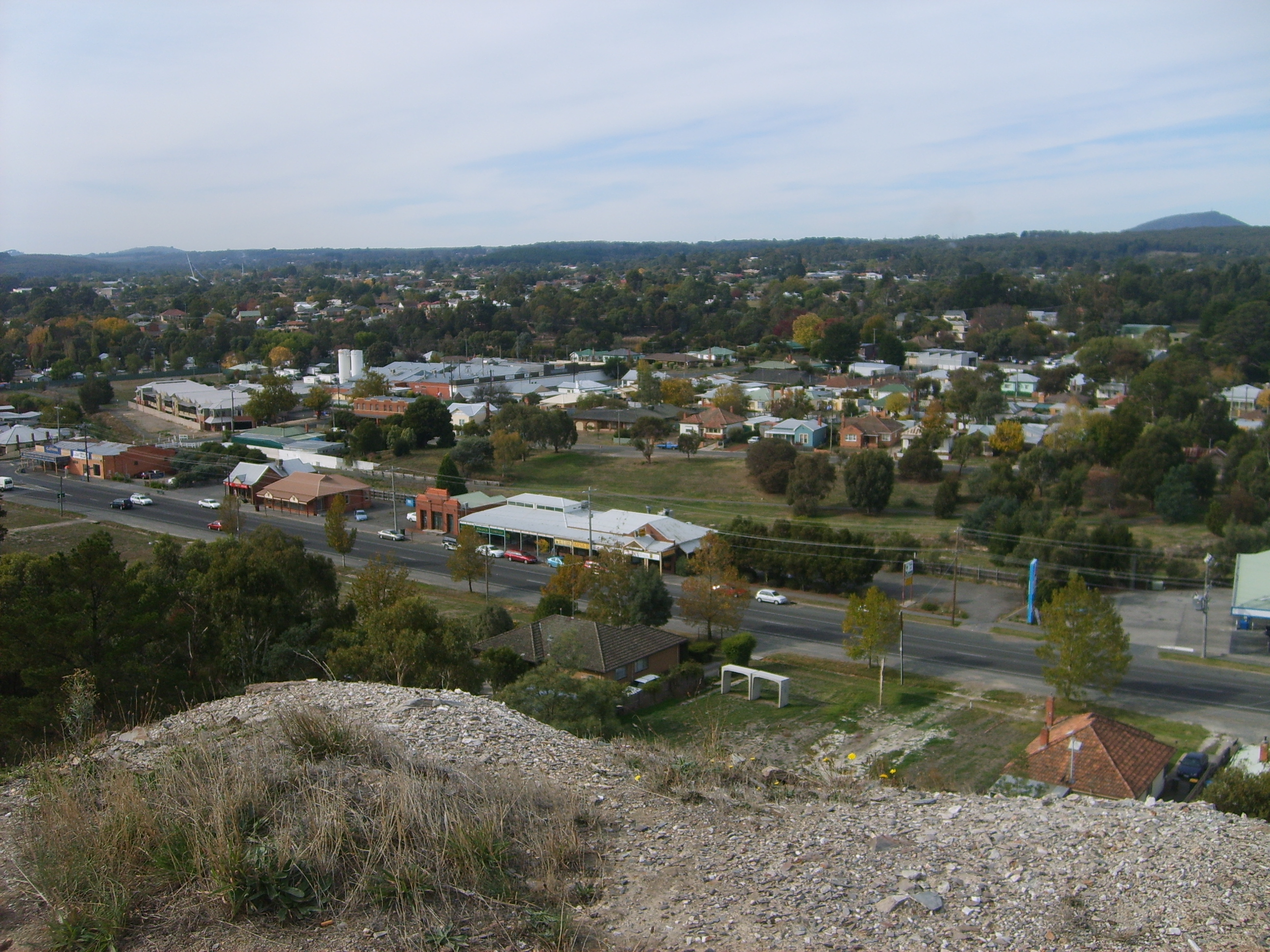 A photo of Golden Point, Victoria, a suburb of Ballarat, taken from Sovereign Hill.